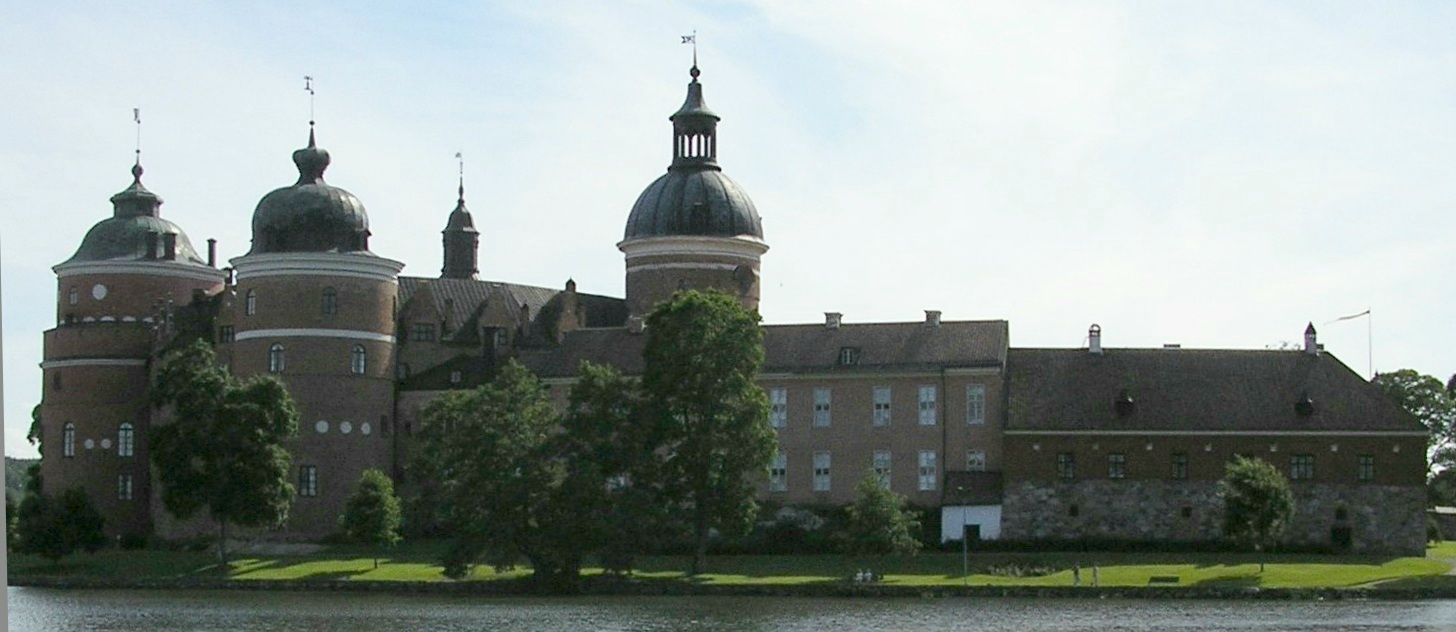 Gripsholm Castle in Mariefred, Sweden. Photographed by myself in 2005.